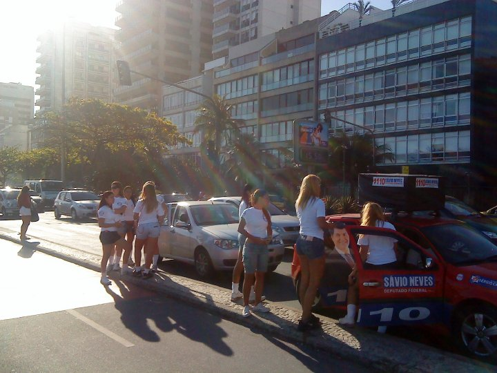 Election campaign 2010